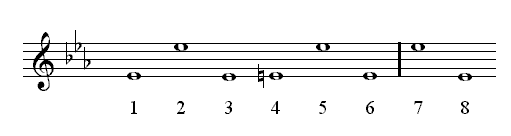 Example of music accidentals